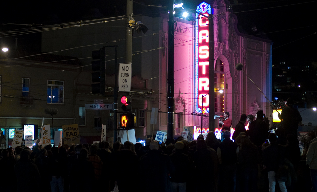 Sean Penn as Harvey Milk in Gus Van Sant's Milk